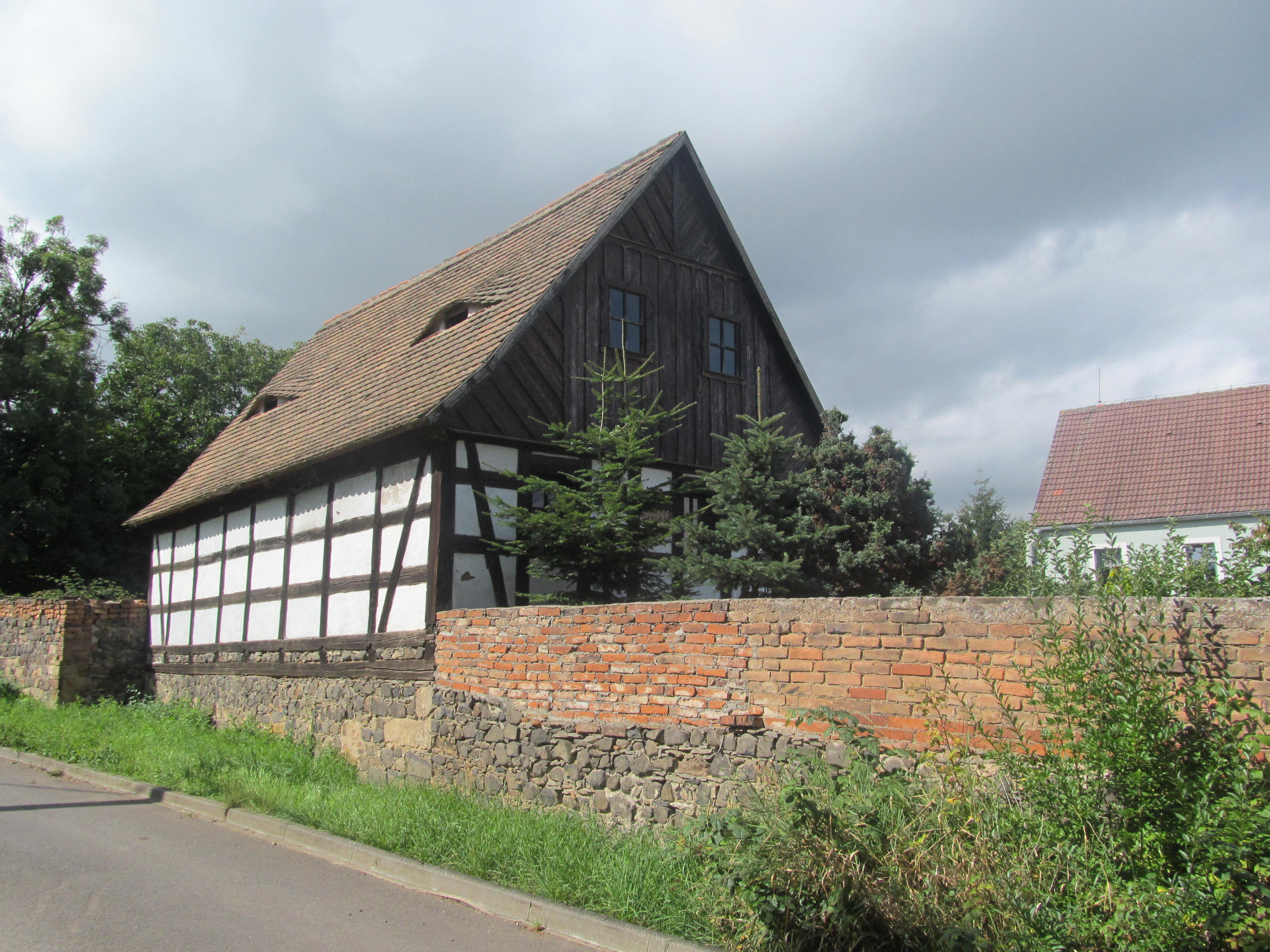 Granary at No 1 in Radejčín